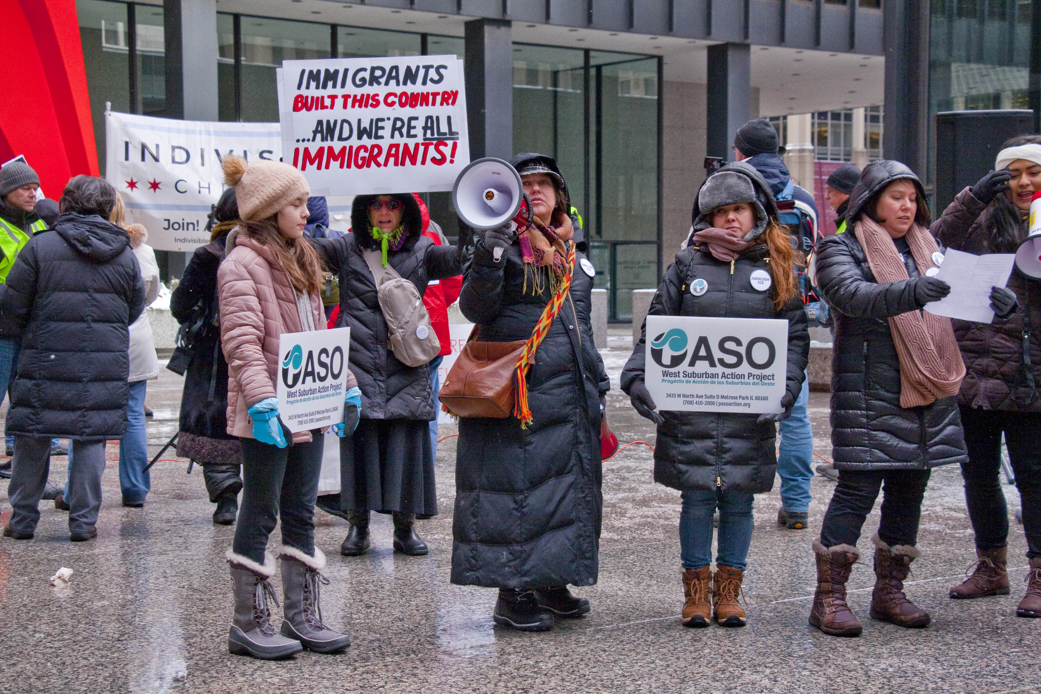 Protesting The Trump National Emergency Chicago Illinois 2-18-19 6129